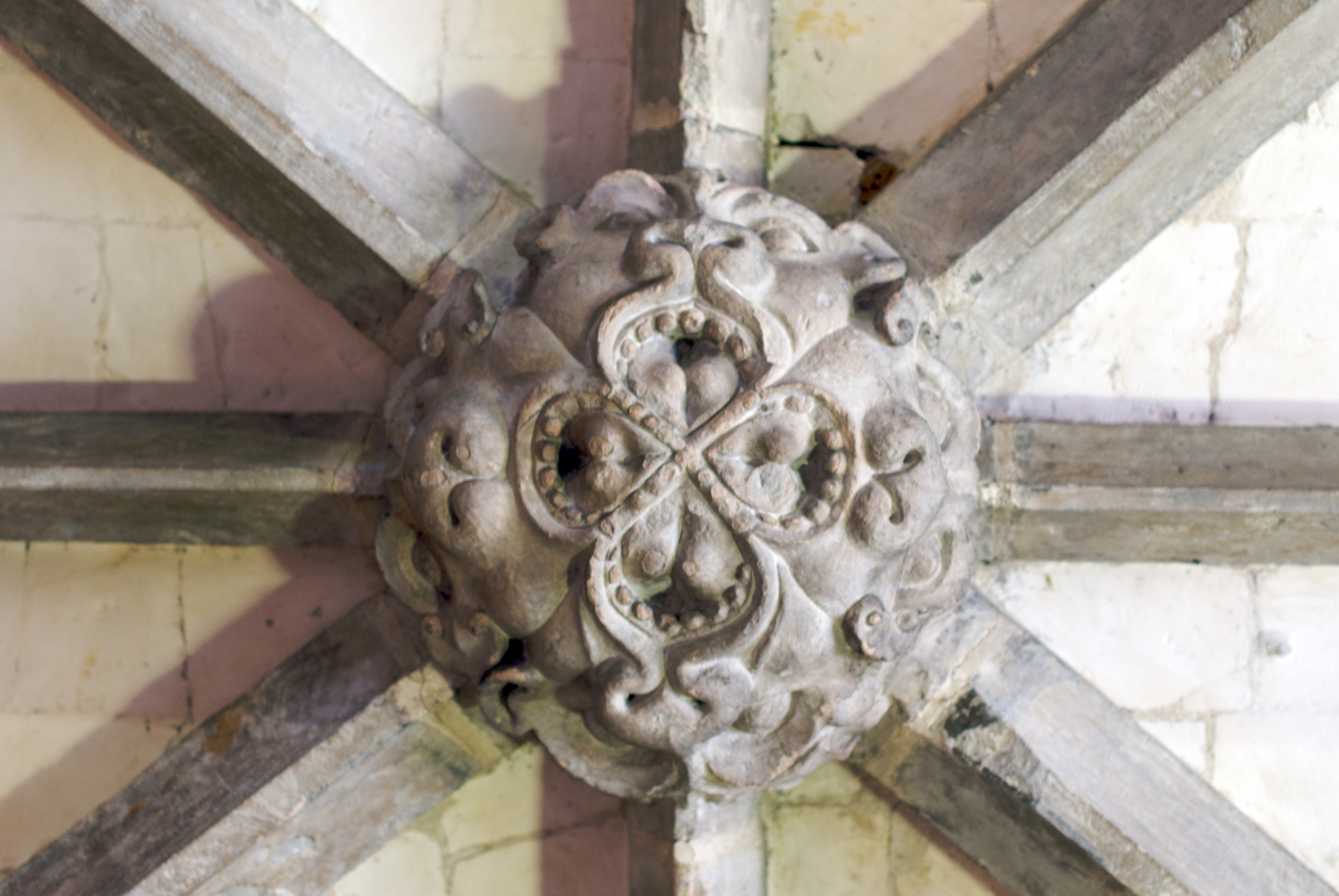 Carving at Jewel Tower